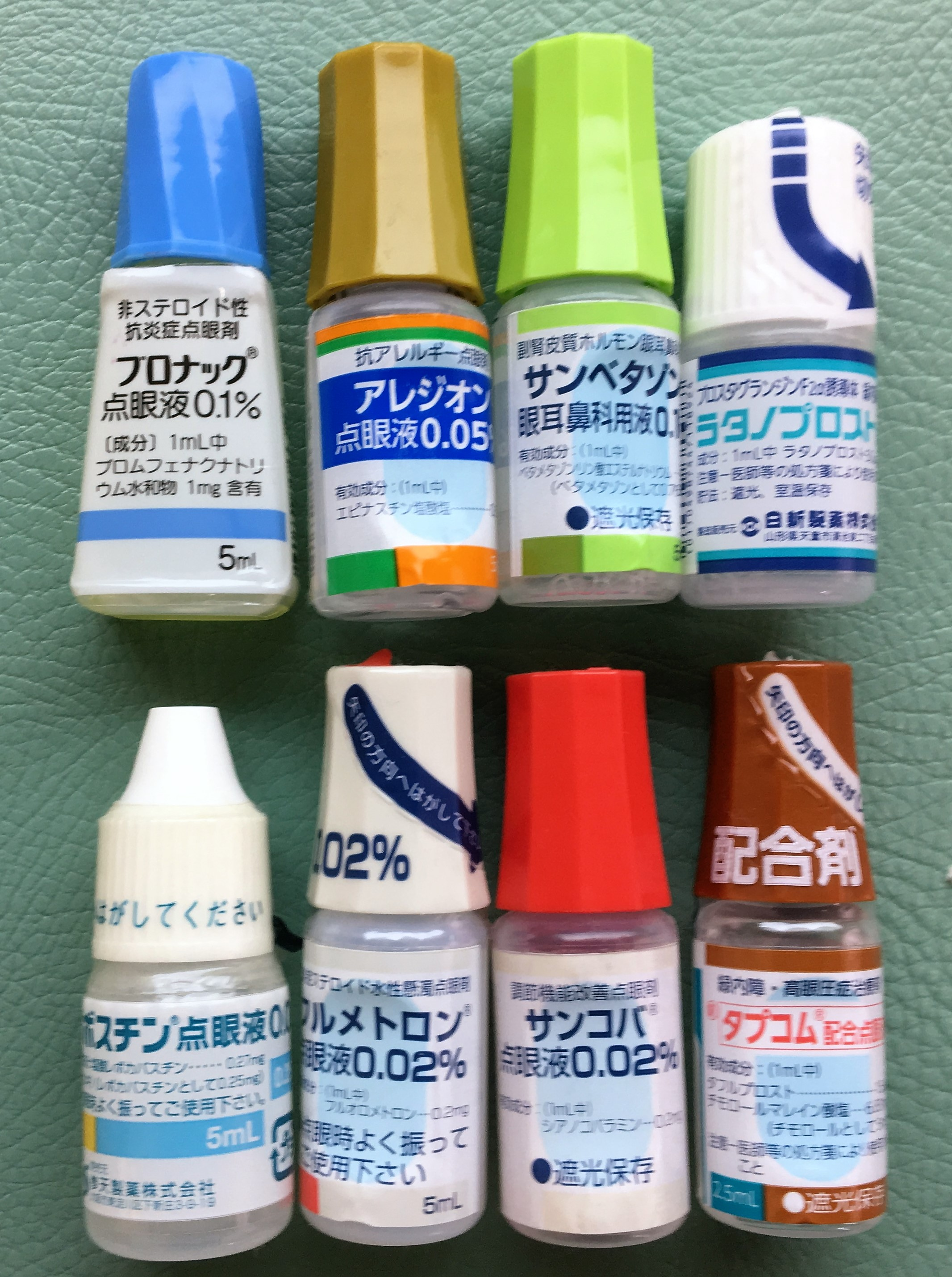 eye drops (japanese)